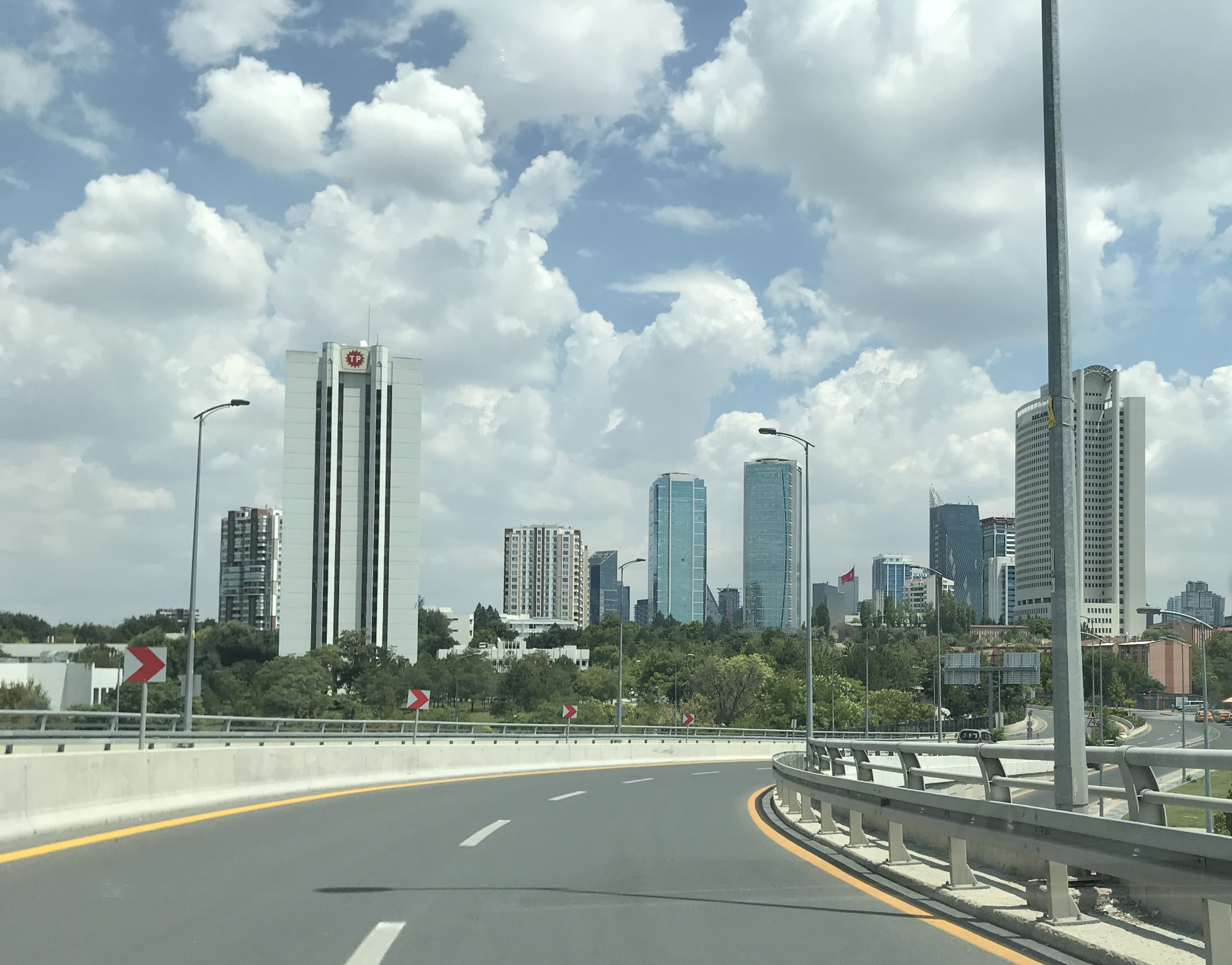 Söğütözü, business district of Ankara